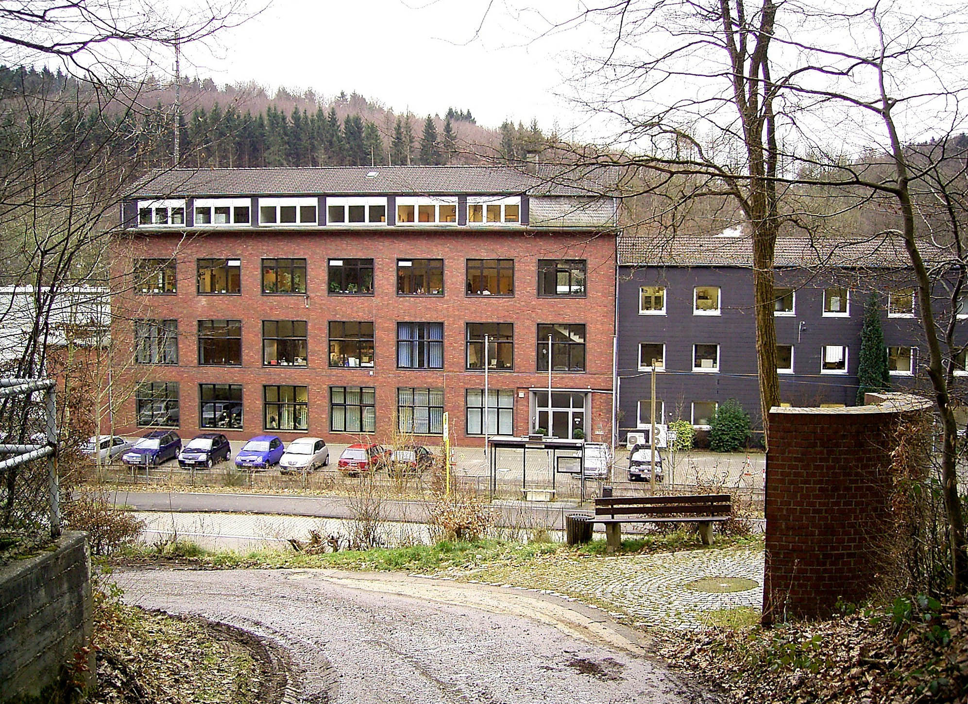 The former Kemna concentration camp in Wuppertal, now a factory. In the foreground at right, stands a memorial to the victims of the Nazi concentration camp, which existed from July 1933 – January 1934.